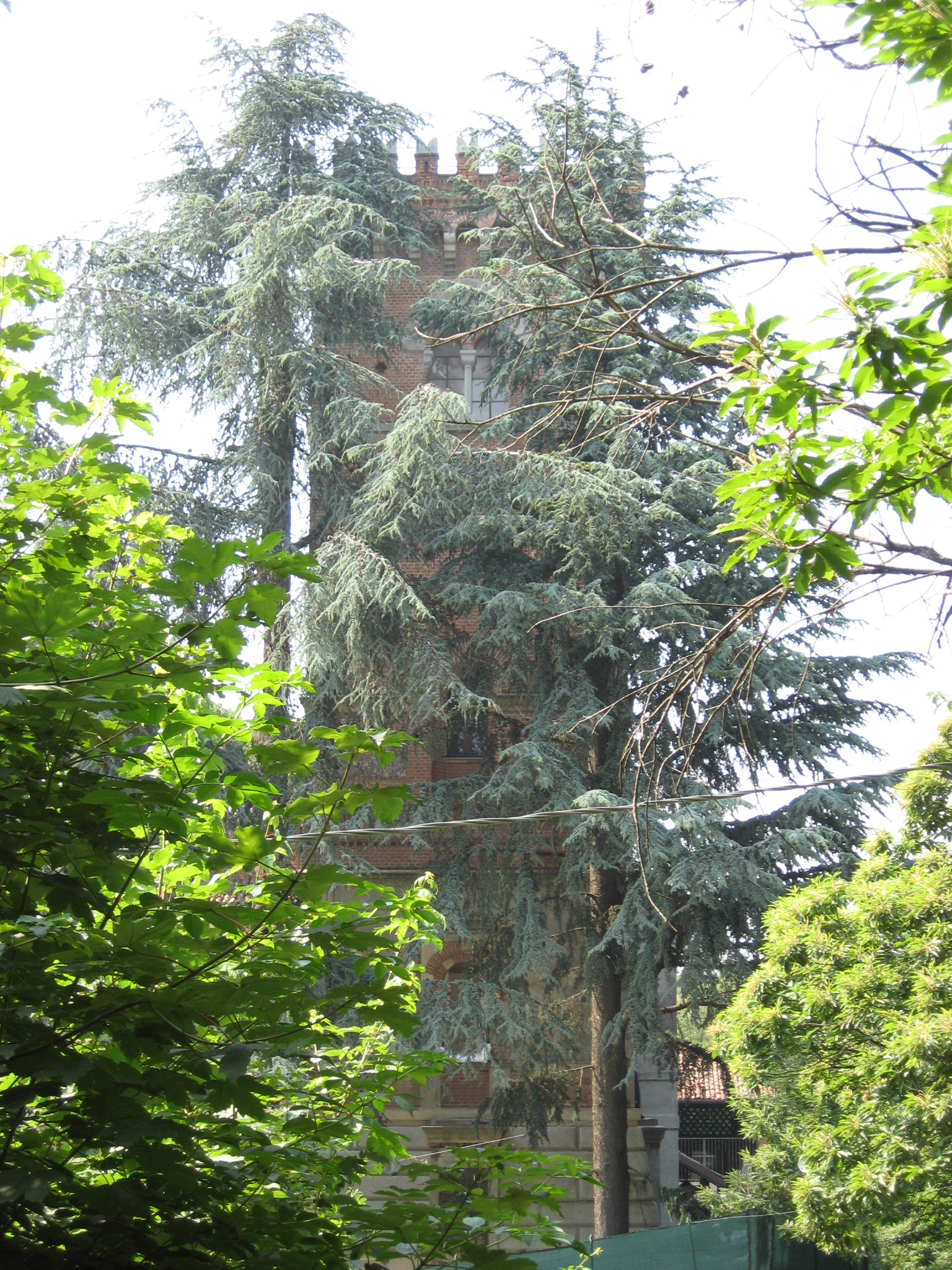 Bellavista tower in Imbersago, Italy (XIV century)